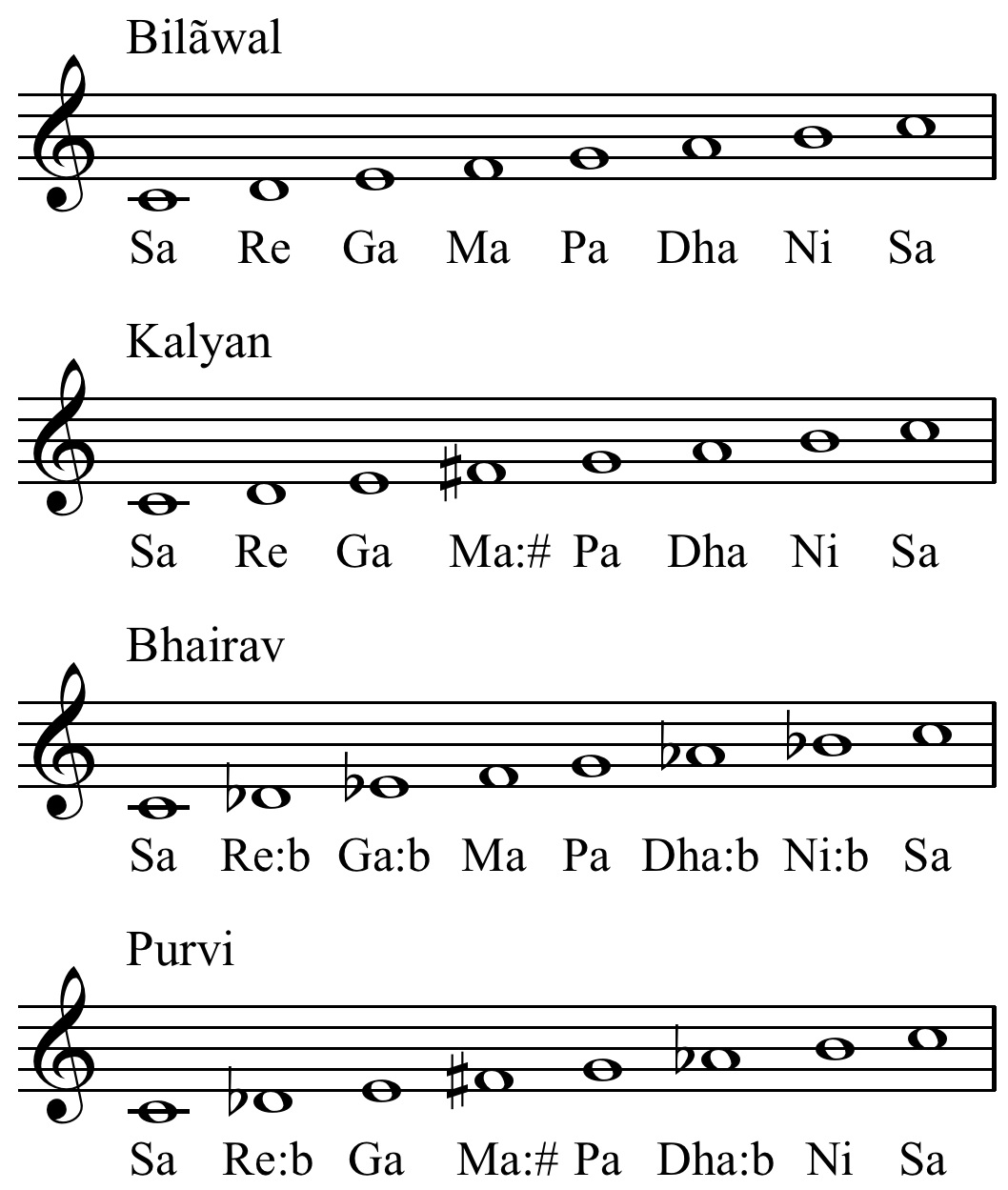 Indian musical scales (Thats), part 1 of 2 Zman 20:30, 12 May 2006 (UTC)